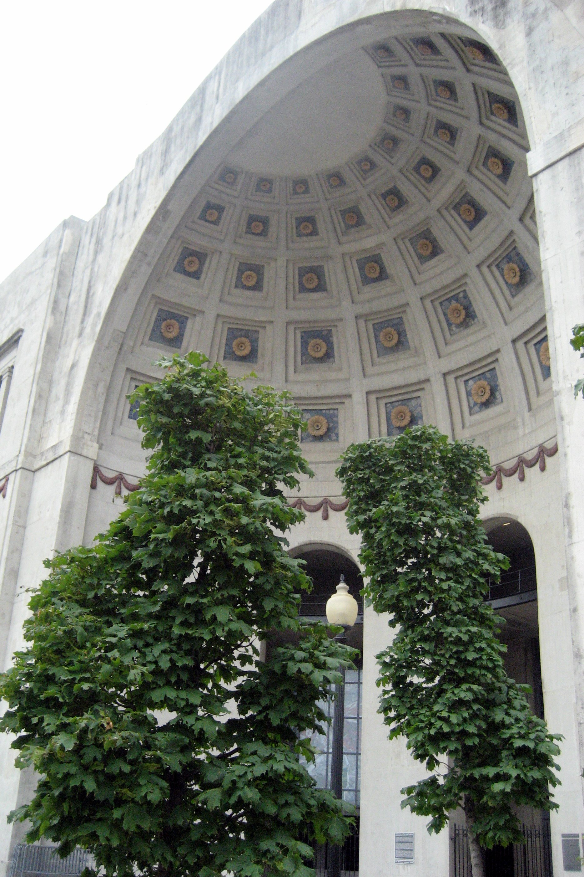 The rotunda at the north end of Ohio Stadium, which is now adorned with stained glass murals of the offensive and defensive squads that comprise the Buckeye football team, was designed to look like the dome at the Pantheon in Rome. The roses seen on the underside of the dome are painted blue and yellow because Michigan beat Ohio State in the stadium's dedication game in 1922.